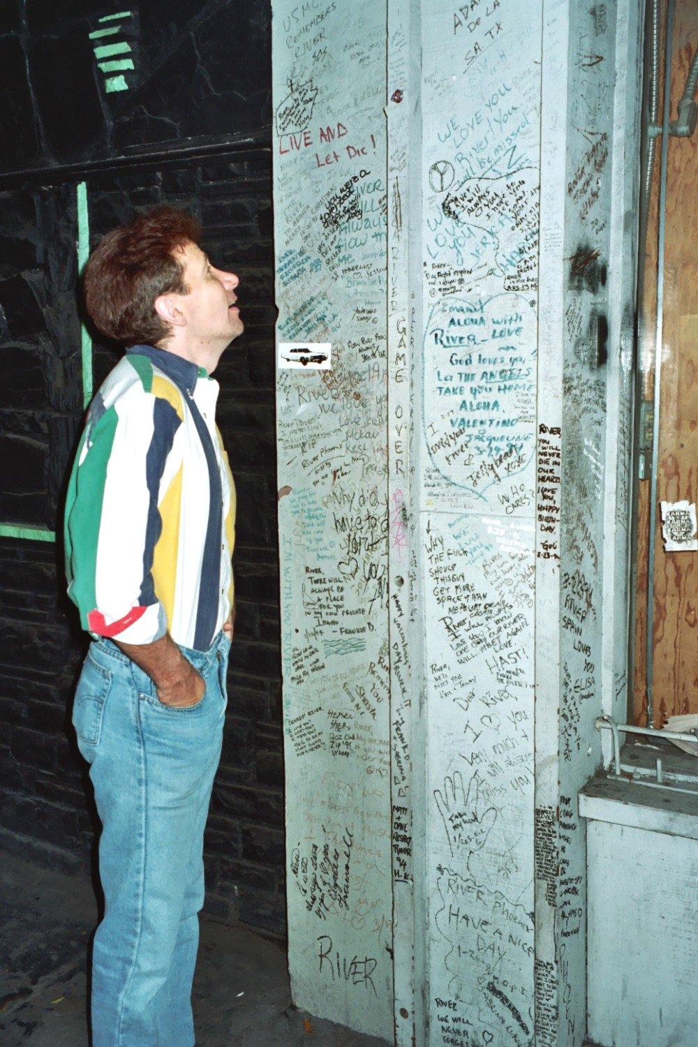 Ken looking at graffiti left outside the Viper Room, a bar in Los Angeles, after actor River Phoenix died on the sidewalk outside the bar. Photo taken in Los Angeles, 1994